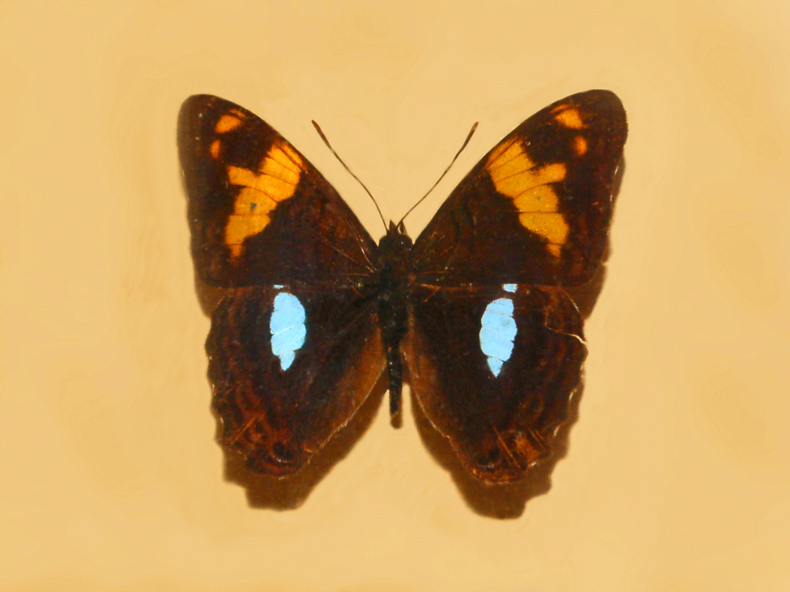 Adelpha justina from Colombia